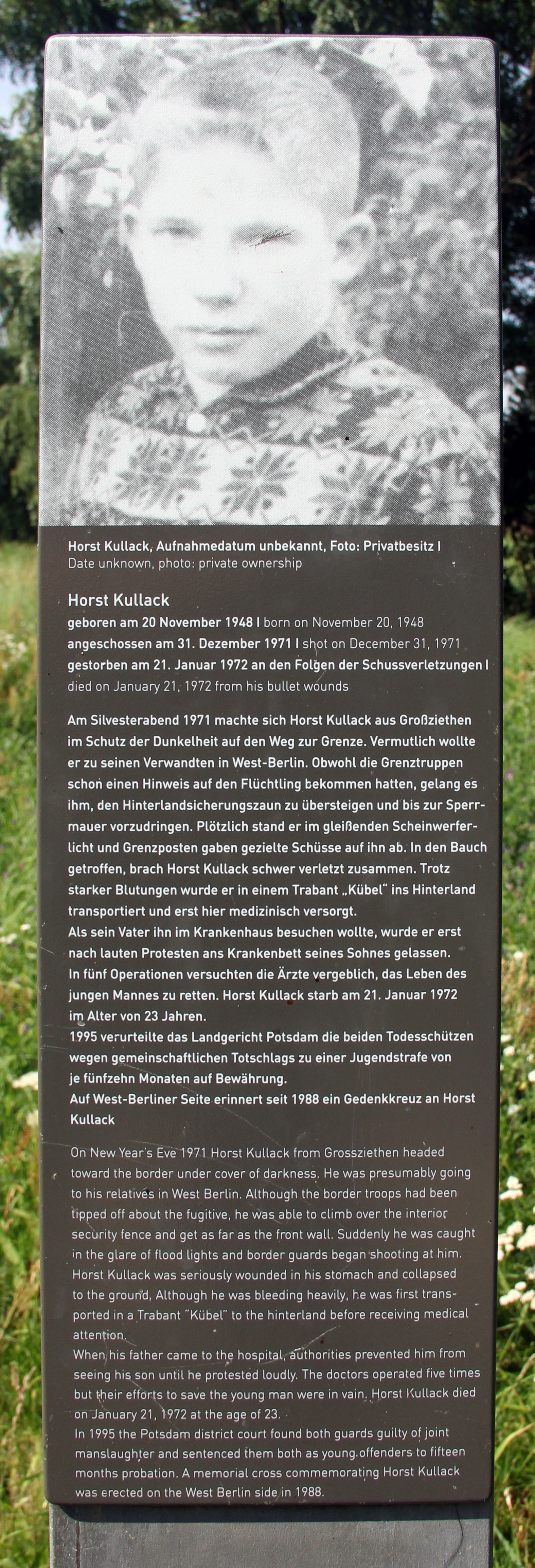 Memorial plaque, Horst Kullack, Lichtenrader Chaussee, Großziethen, Deutschland